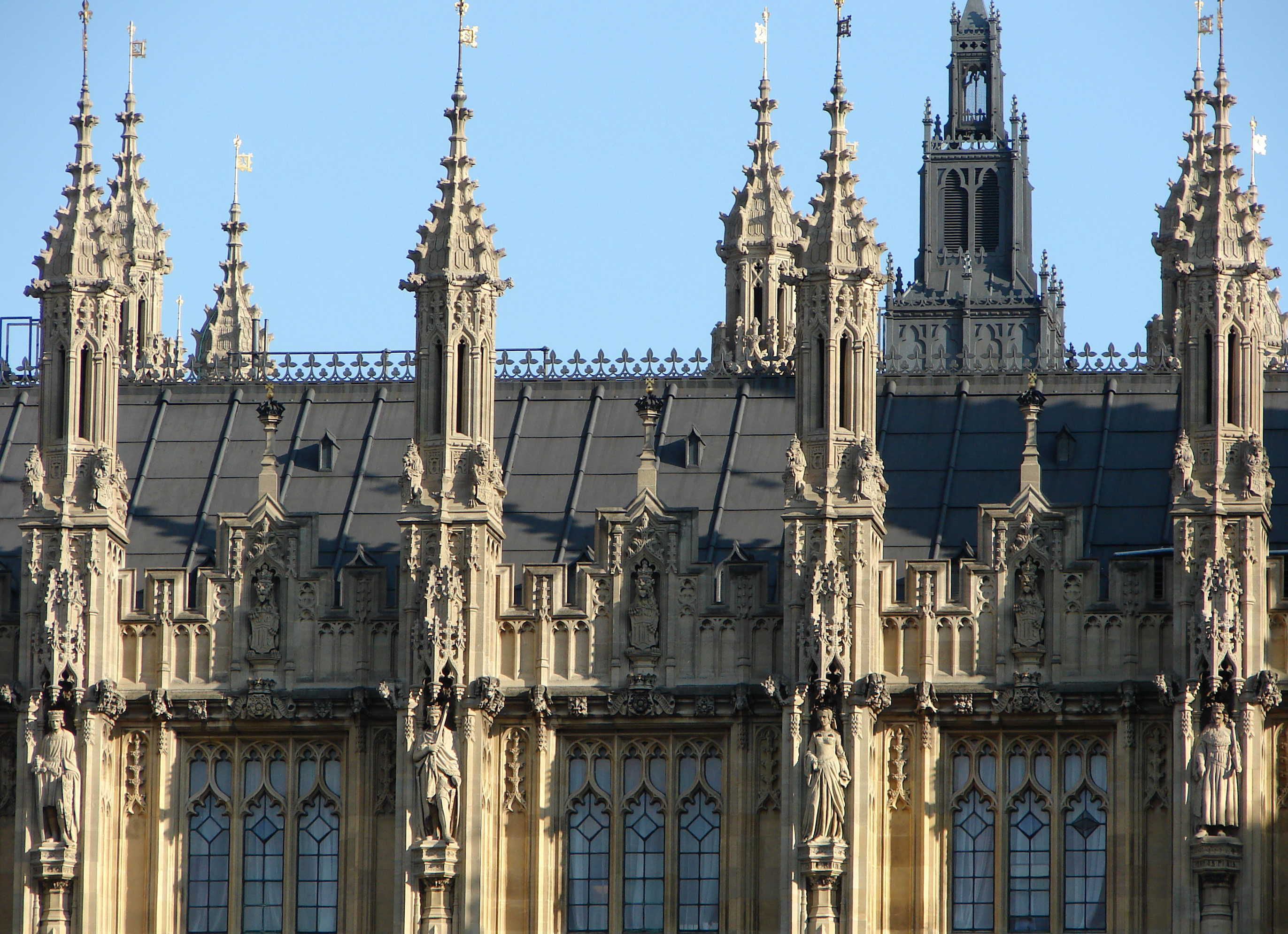 Perpendicular Gothic architecture, Palace of Westminster.